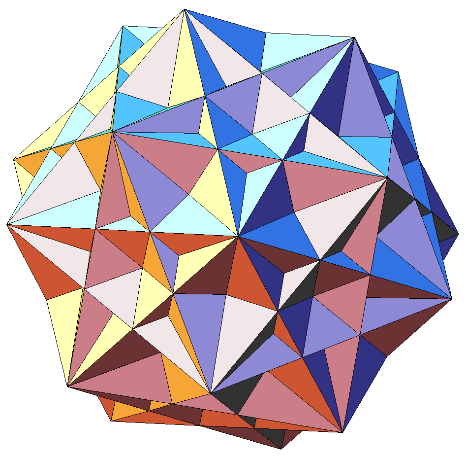 stellation of rhombic triacontahedron Template:Bulatov polyhedra stellations applet